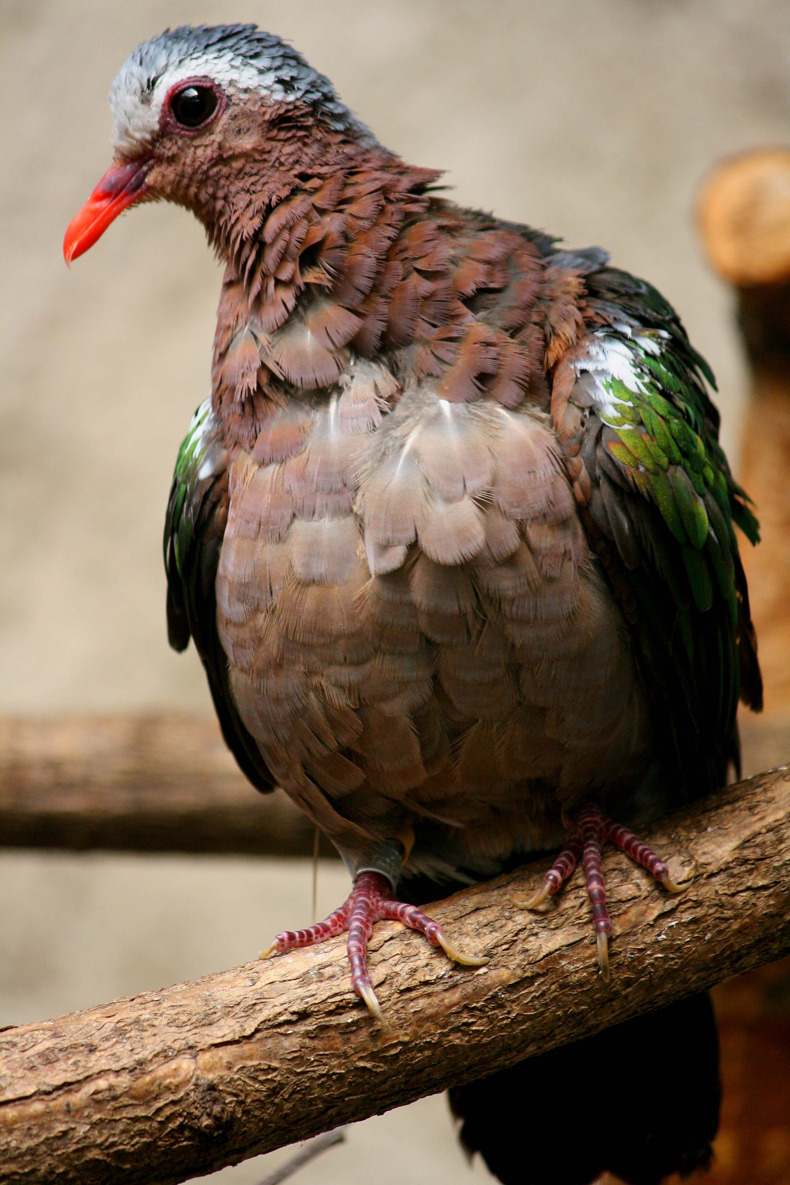 Emerald Dove (Chalcophaps indica) in zoological garden in Plock.